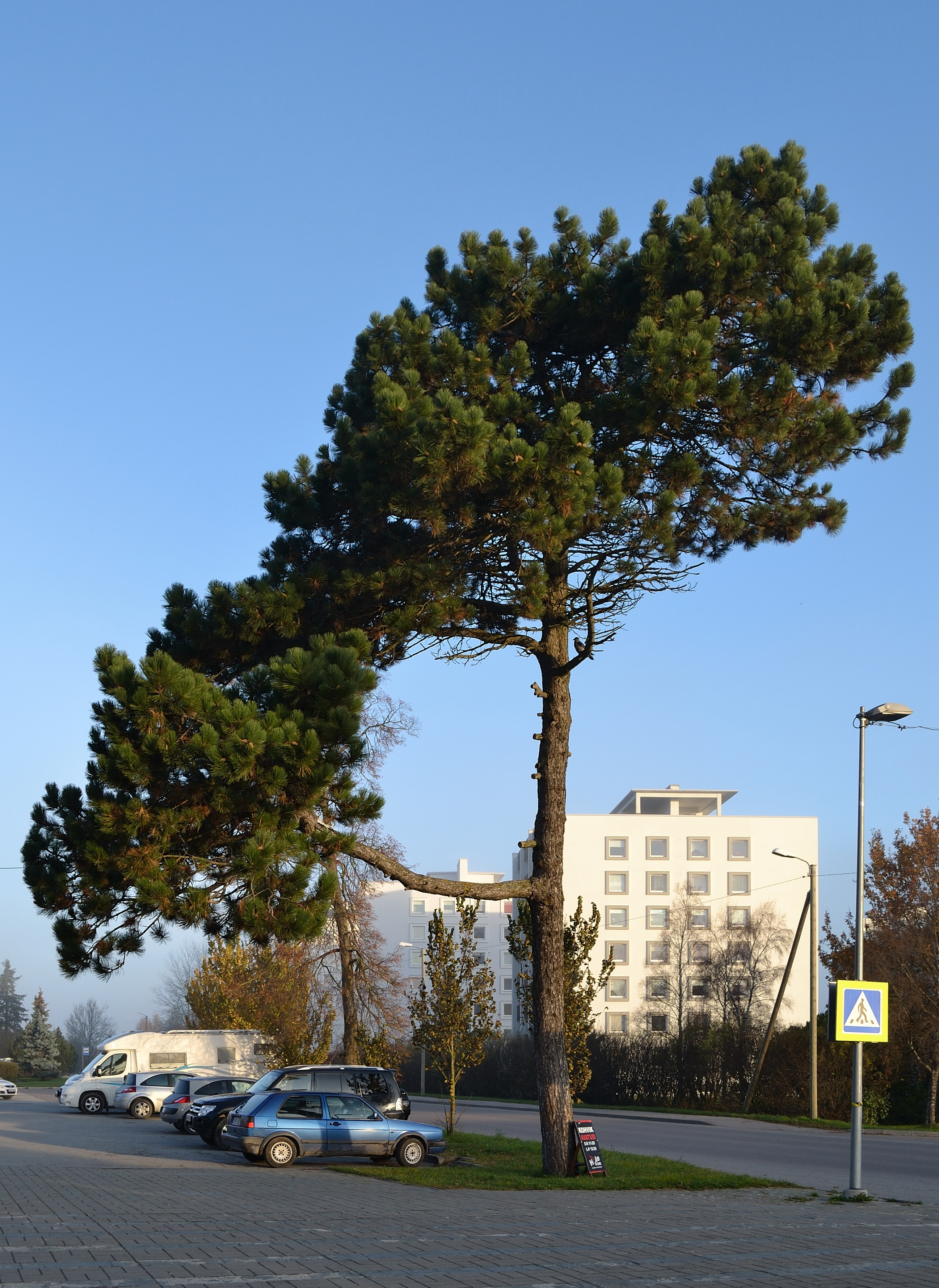 Cultivated Austrian Pine (Pinus nigra nigra) in Keila, Estonia.